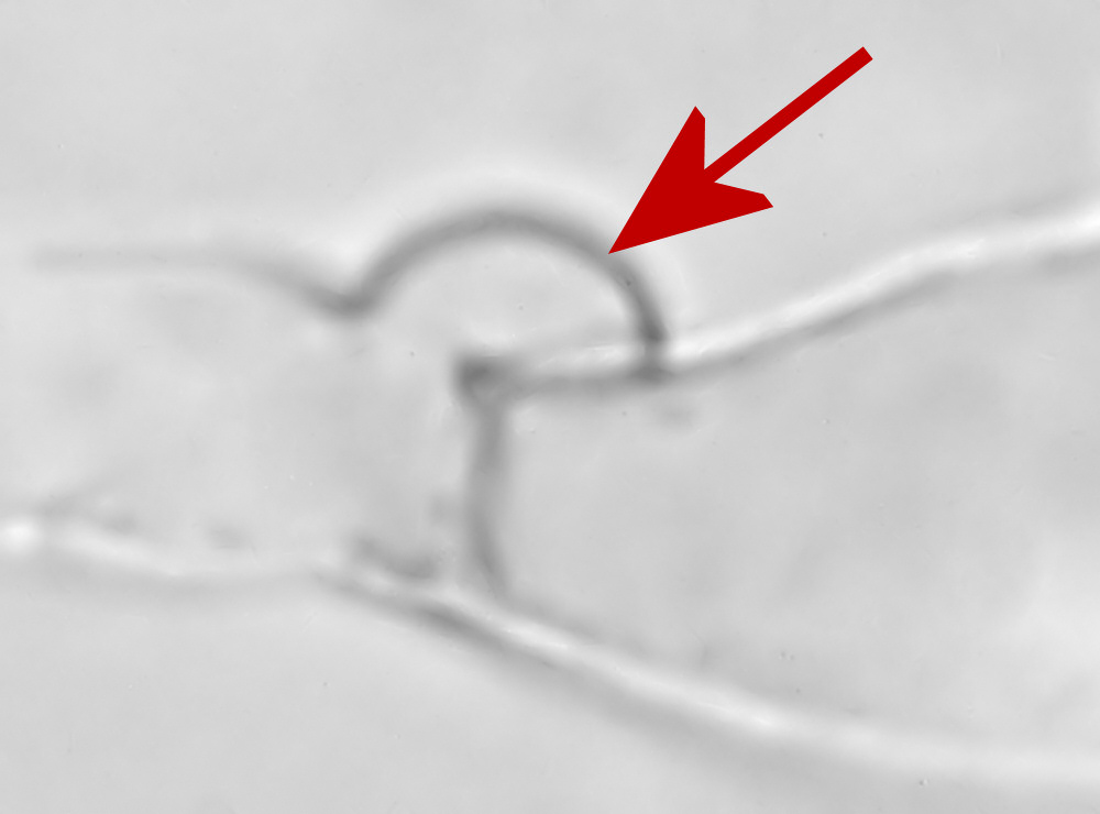 Hyphe with clamp